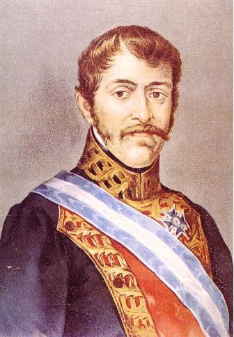 Carlos Maria Isidro of Bourbon (1788-1855), the first "Carlist" pretender to the Spanish throne.